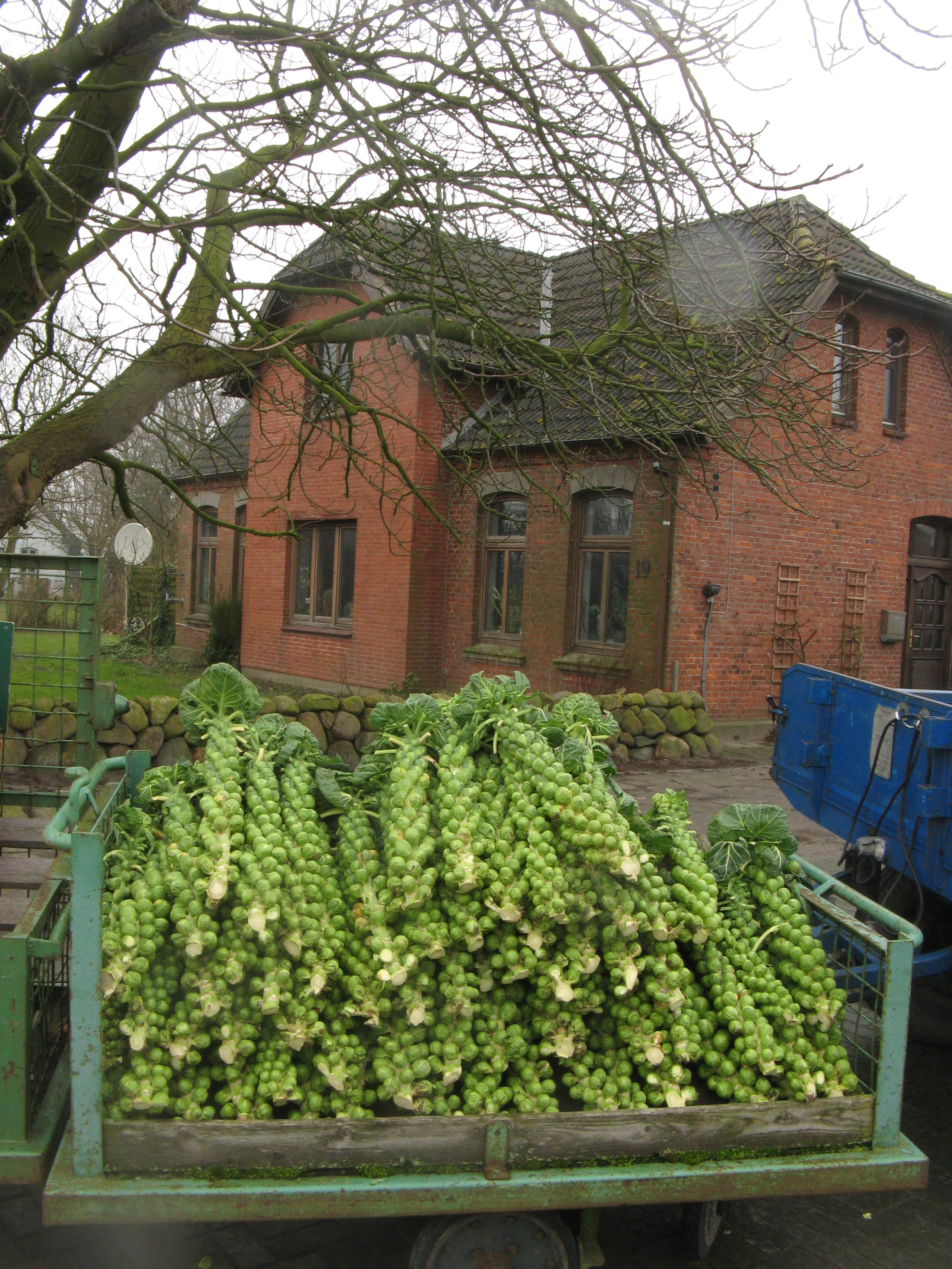 Fresh Brussels sprout for sale at a farm in Wesselburenerkoog, Schleswig-Holstein, Germany